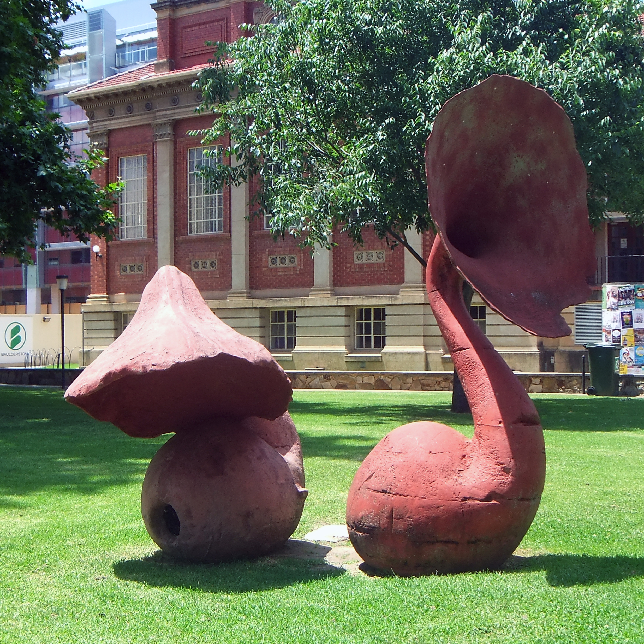 The Fones by Jonathon Dady, on the Barr Smith Lawns at the University of Adelaide.